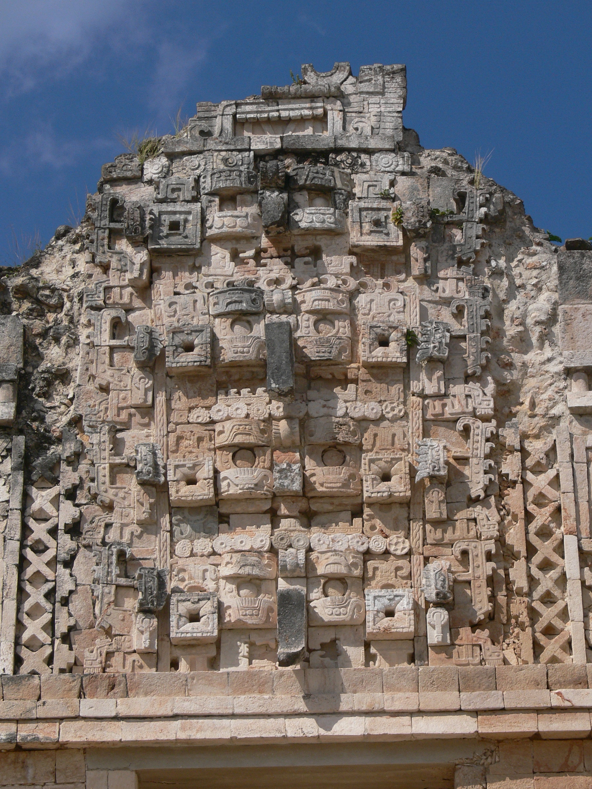 Uxmal ( Yucatan ). Cuadrangulo de las Monjas: Chac masks at the northern palace.